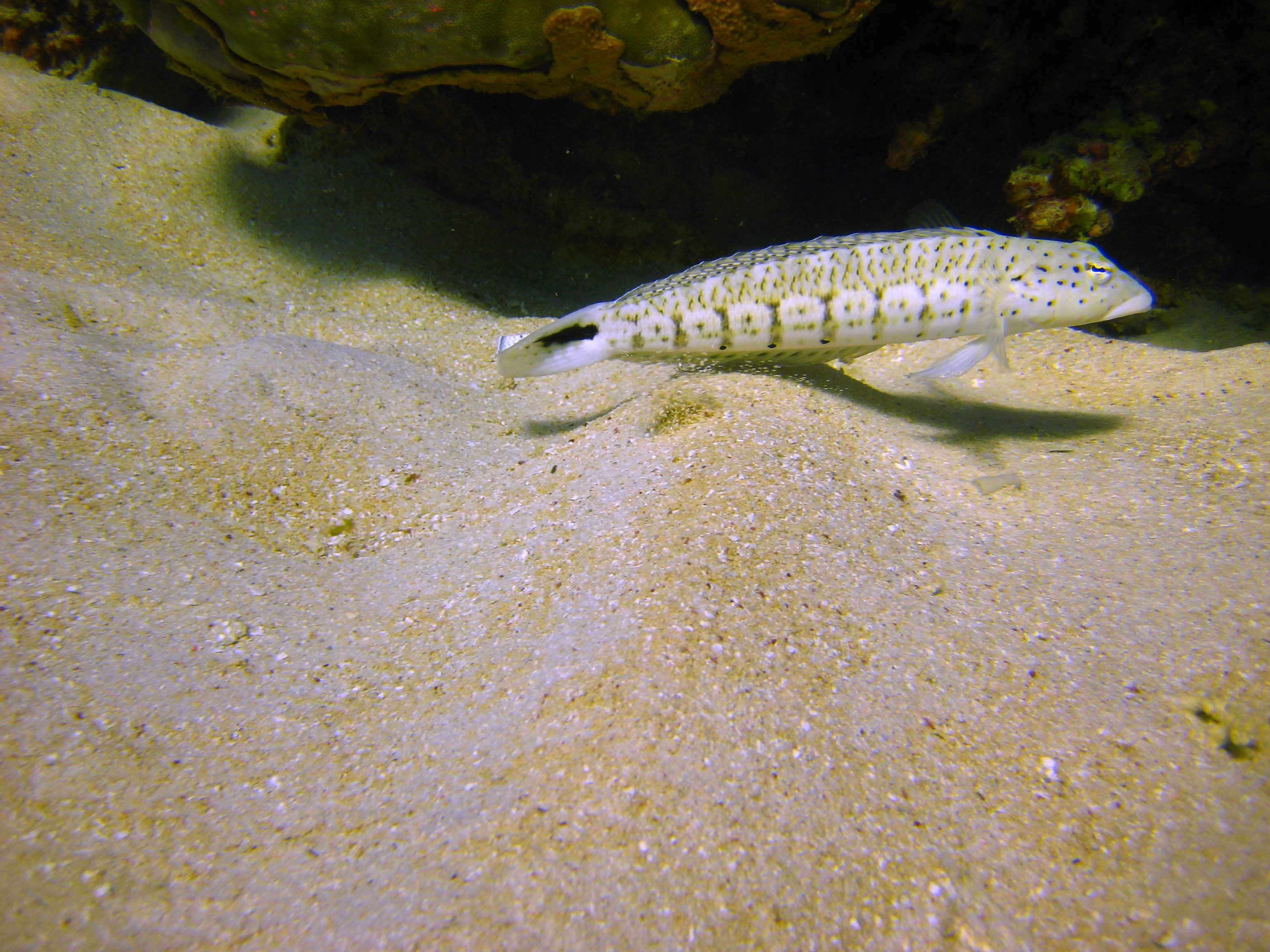 Australia, Great Barrier Reef.